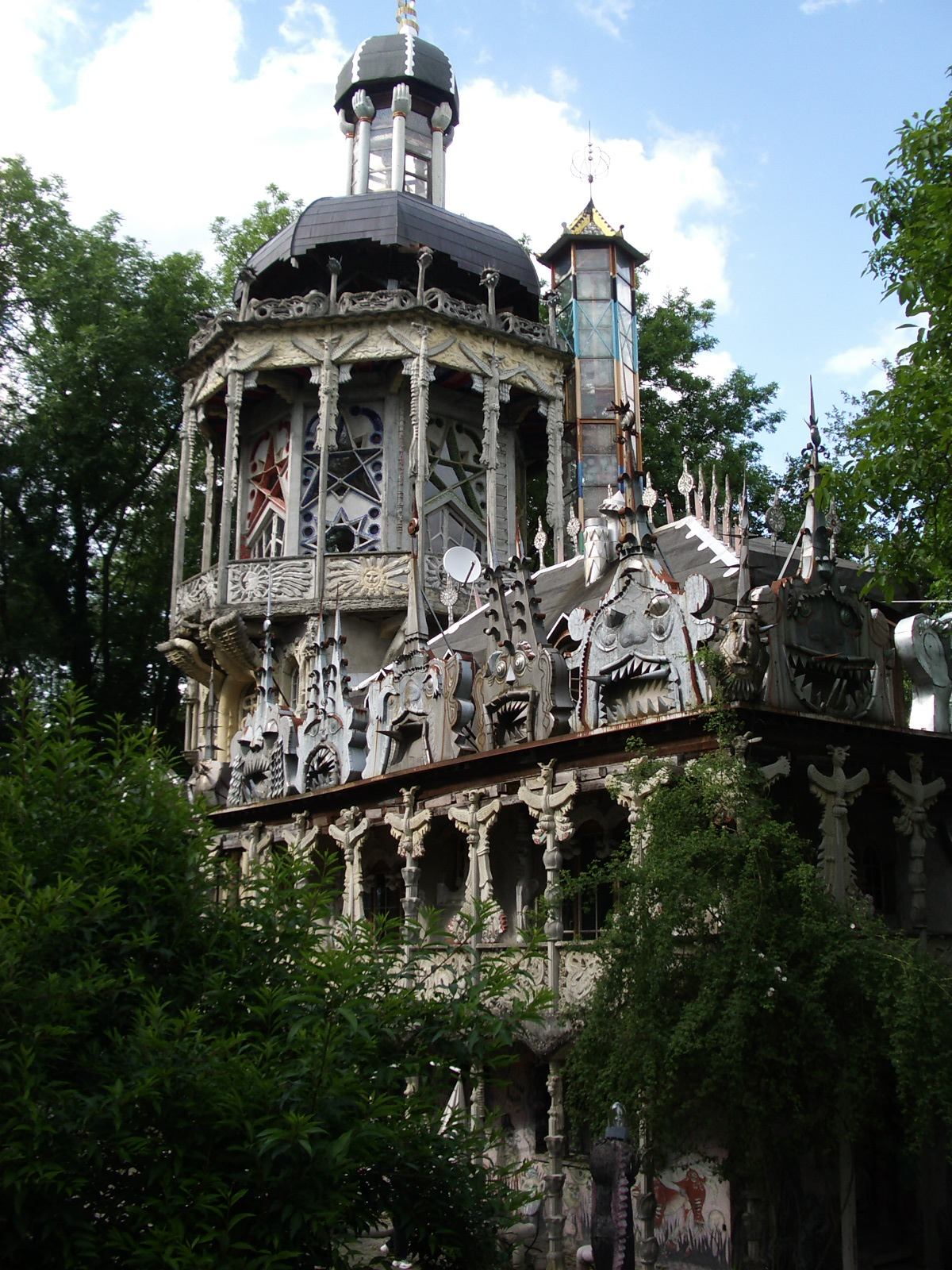 Bruno Weber Exhibition, Spreitenbach AG, Switzerland